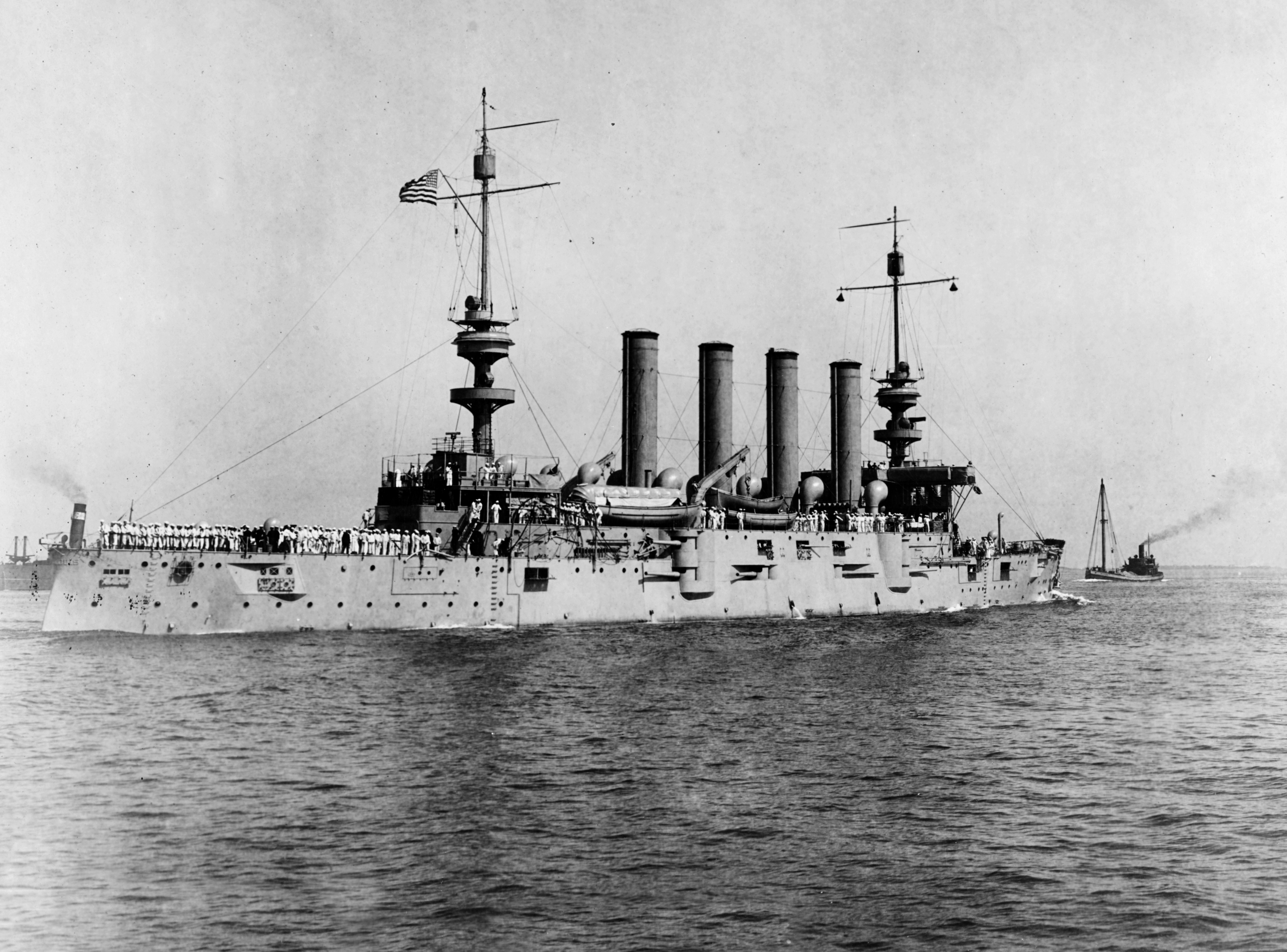 Imaage taken from NavSource ( but originally from the U.S. Naval Historical Center.